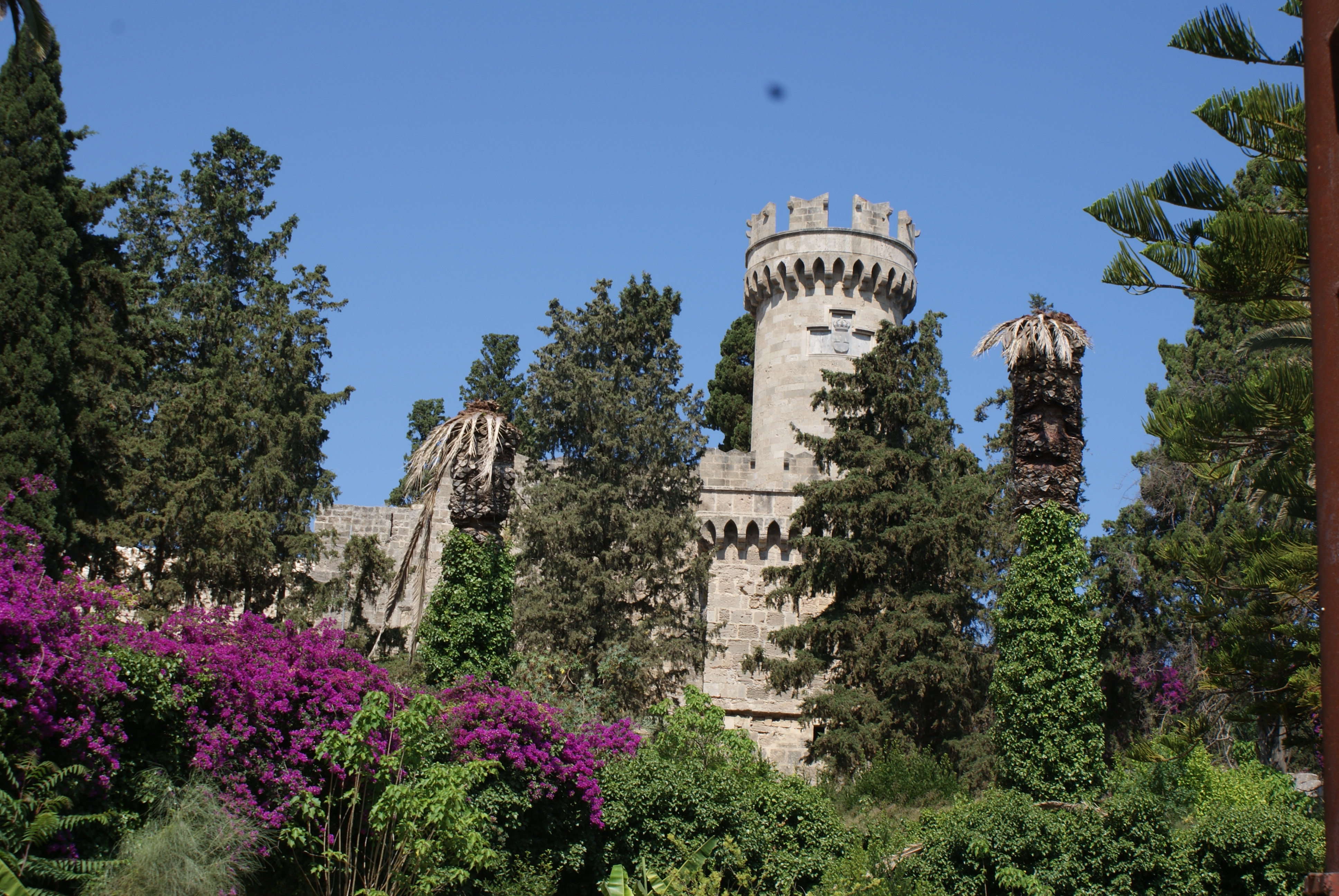 Palace of the Grandmasters from the garden